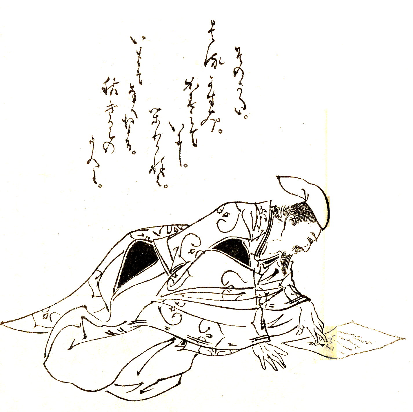 Ki no Tomonori (紀友則) was an early Heian waka poet of the court.This picture was drawn by Kikuchi Yosai（菊池容斎） who was a painter in Japan.